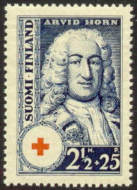 Postage stamp depicting the Finnish-Swedish statesman Arvid Horn